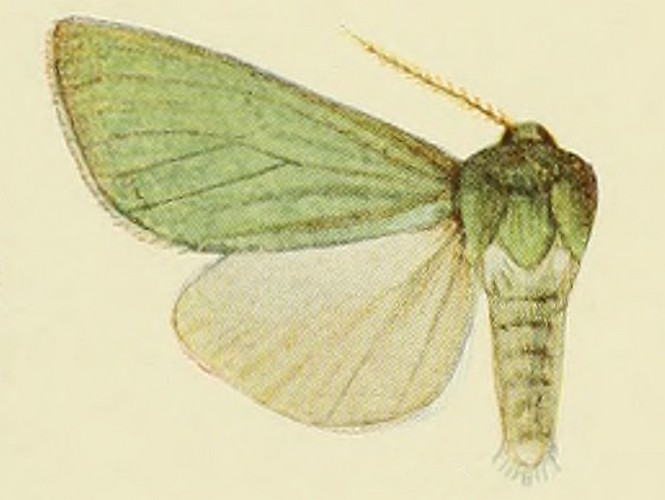 PLATE LVIX.